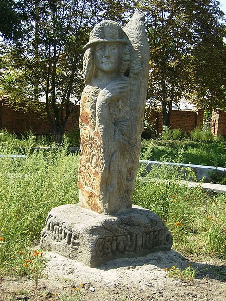 Monument to John Lennon in Mogilev-Podolsky